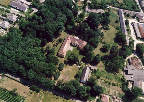 Nőtincs Hungary aerialphotography